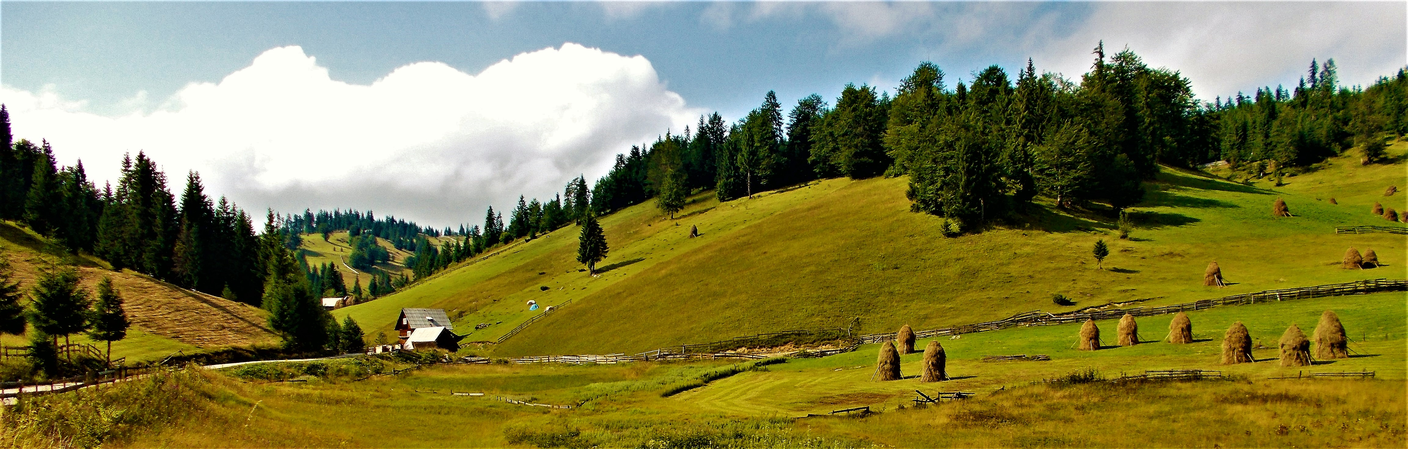 Apuseni Mountains in Garda de Sus, Alba County